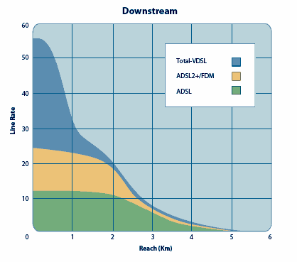 Representation of speeds obtainable for different DSL technologies with respect to line length.